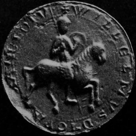 The seal of William Rufus, King of England.